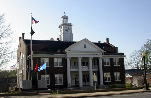 Mercer County Courthouse in Harrodsburg, Kentucky, now demolished in favor of the construction of a new courthouse. It was listed on the National Register of Historic Places as part of the Harrodsburg Downtown Historic District.